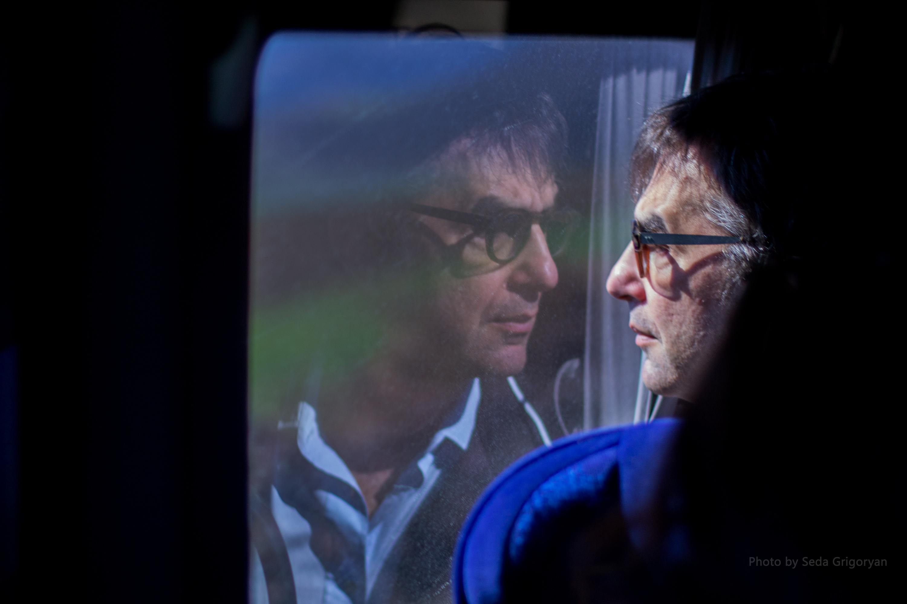 Taken in Armenia, in April 2017. By Seda Grigoryan